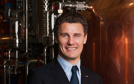 Arcus-Gruppen CEO Otto Drakenberg